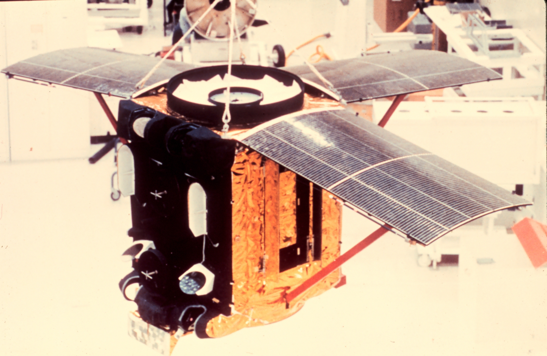 An ITOS satellite being readied for launch